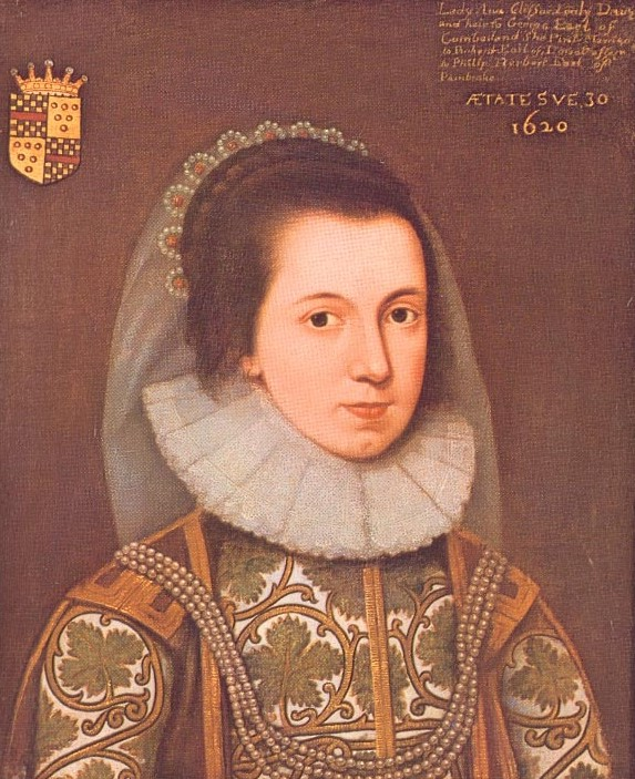 Lady Anne Clifford (born 30 January 1589/90)